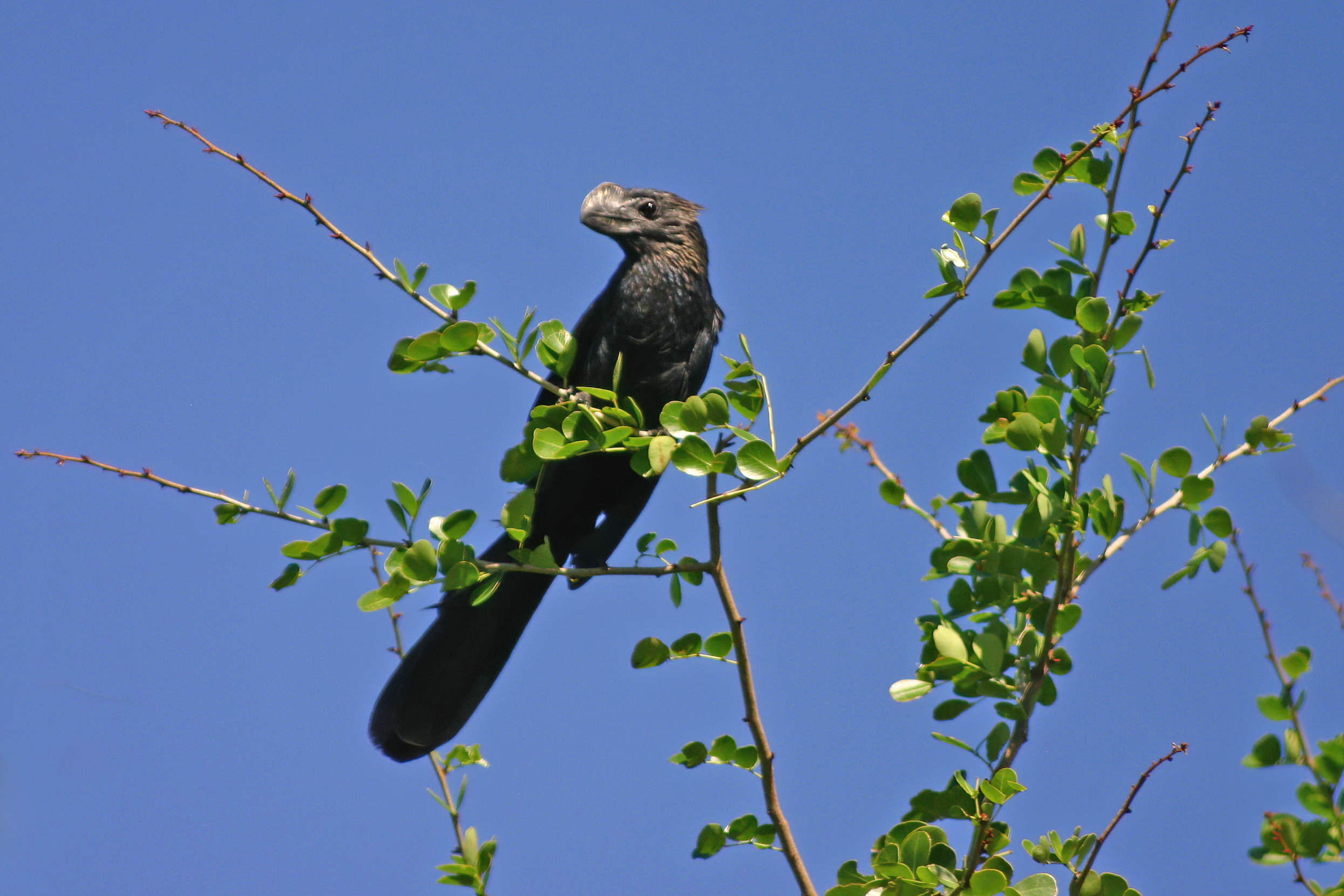 Smooth-billed Ani (Crotophaga ani) in Dominica.